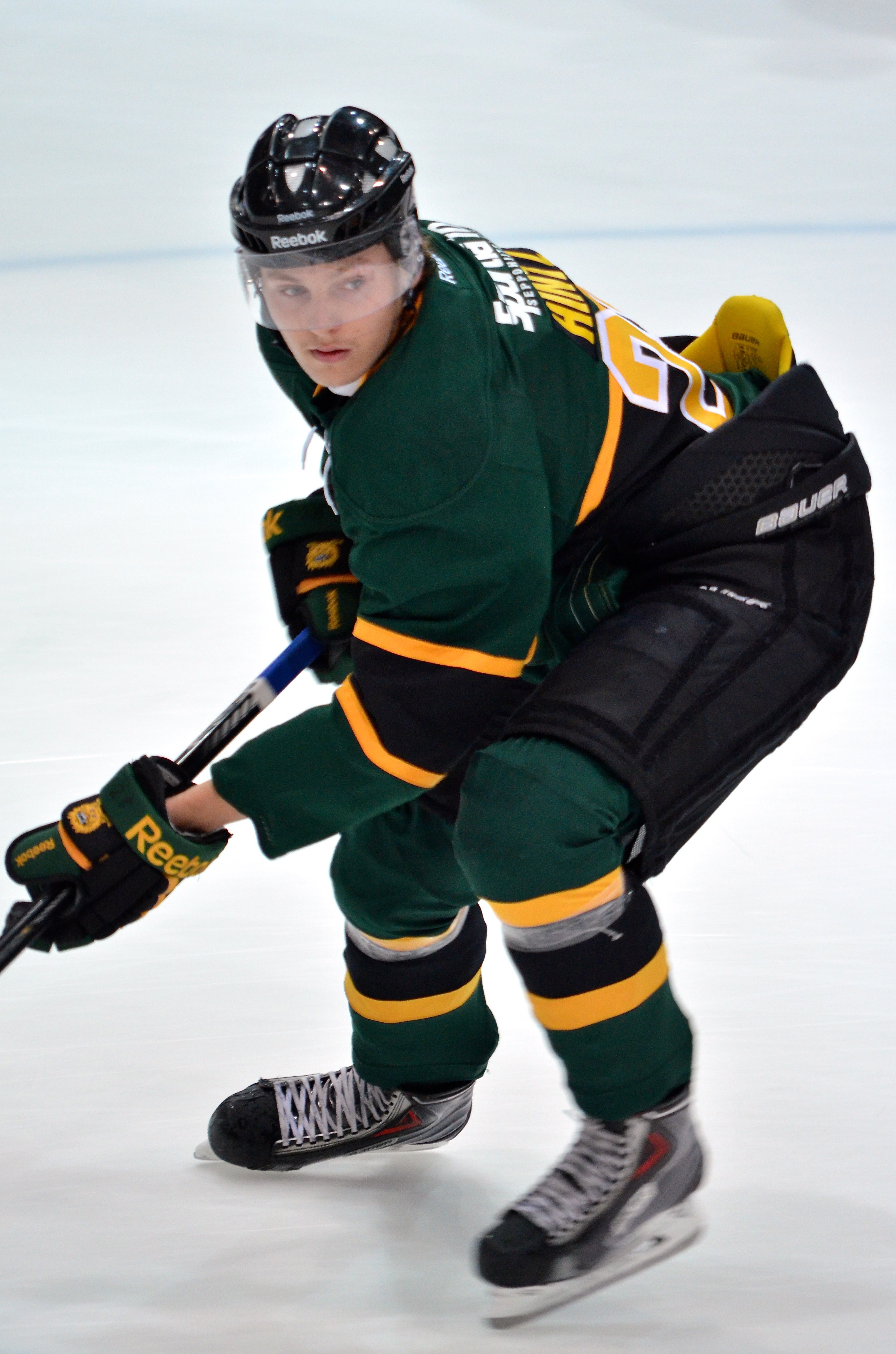 Finnish ice hockey forward Roope Hintz playing for Tampere Ilves in an SM-liiga preseason game against Espoo Blues in Tampere, Finland.